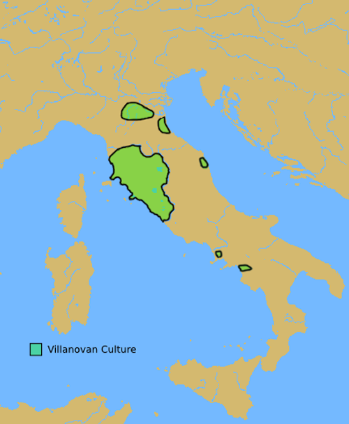 Map of the VIllanovan Culture at 900BC